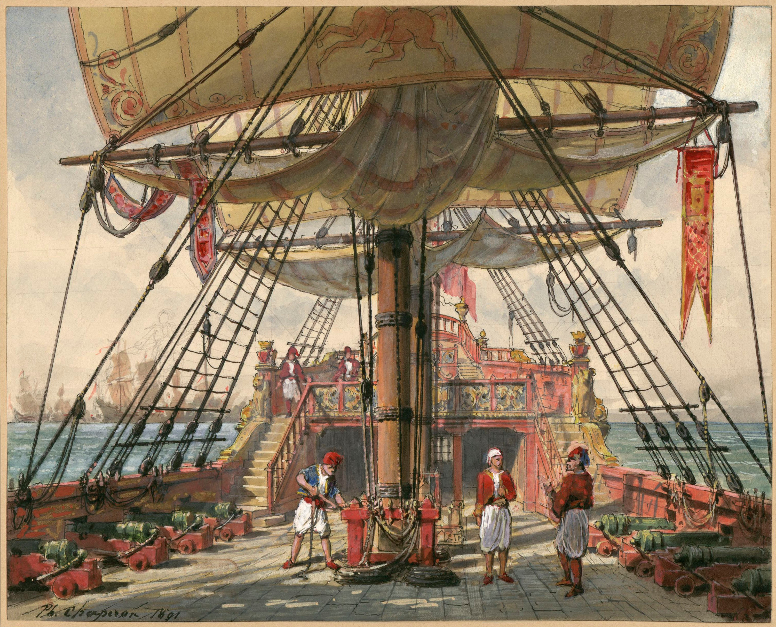 Design for the set for Act II of Haydée, an opera by Daniel Auber. For the production by the Théâtre de l'Opéra-Comique-Châtelet that opened 22-11-1891 Gallica description: Haydée ou Le secret : esquisse de décor de l'acte II / Philippe Chaperon - 1 dess. : plume, aquarelle et gouache ; 200 x 252 mm It should probably be noted that, as part of the restoration, the bits of the red paint that had flecked off the two rightmost sailors on the deck proper have been restored. One could see the deck through them before.